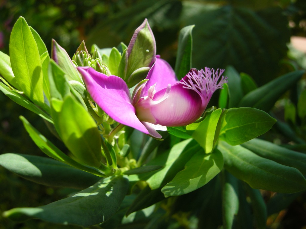 A flower with a difficult name... :)